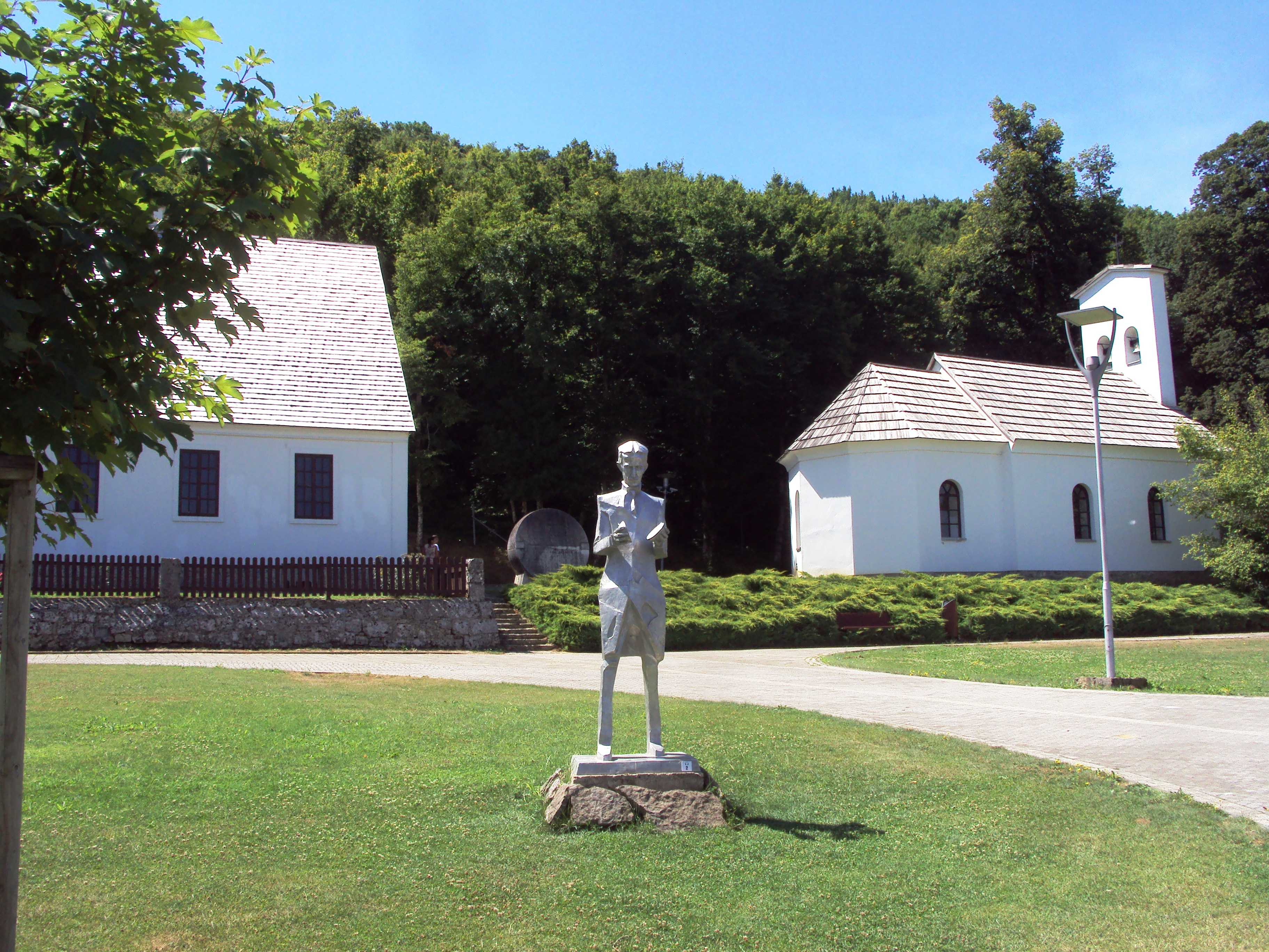 Smiljan Memorial Center in Croatia. This is a a photo of a cultural heritage in Croatia with ID:Z-2265